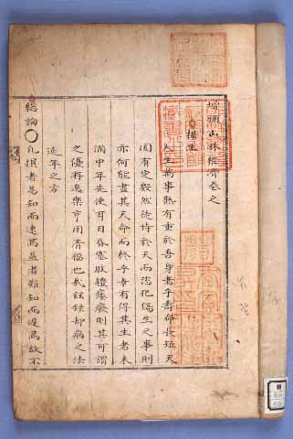 The old Korean book titled Jeungbo Sanrim gyeongje authored by Yu Jungrim during the late Joseon dynasty of Korea in 1766. It was expanded and revisied edition of Sanrim gyeongje written by Hong Manseon. This manuscript is held by National Museum of Korean located in Seoul, South Korea